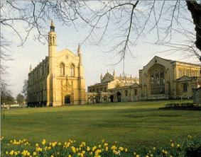 Cheltenham College Chapel (left) and Library (Big Modern, right)